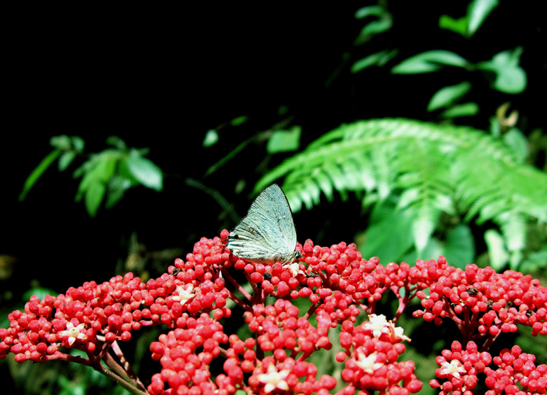 Matsutaroa iljai, male, Mt. Canlaon, Negros Is.